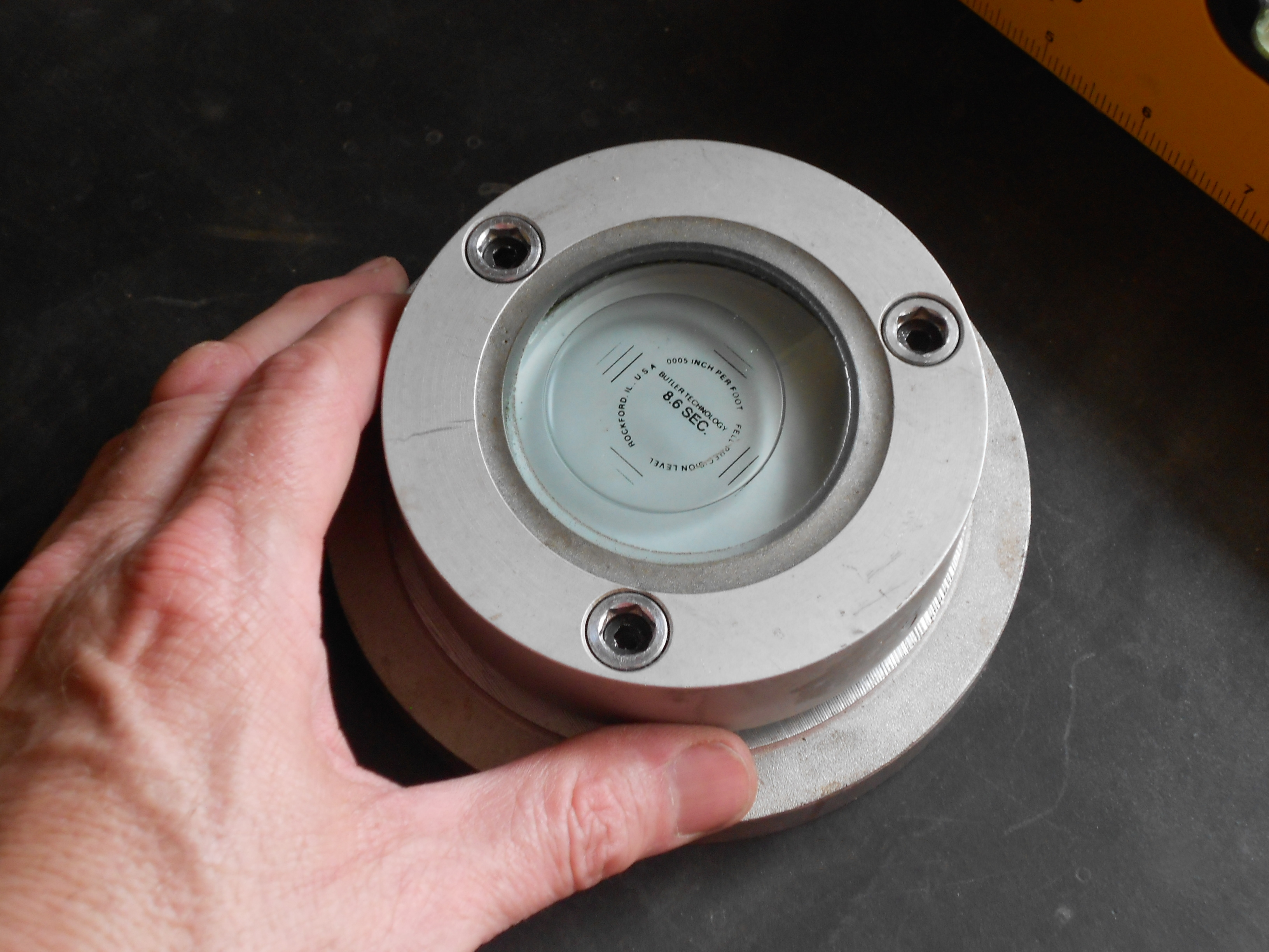 Thomas Butler Technology All-Way carpenter's accuracy spirit level. Made circa 1995 in Rockford, Illinois, USA.